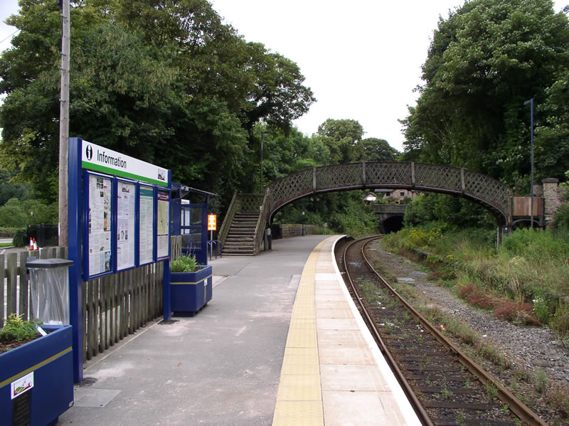 Whatstandwell Railway Station